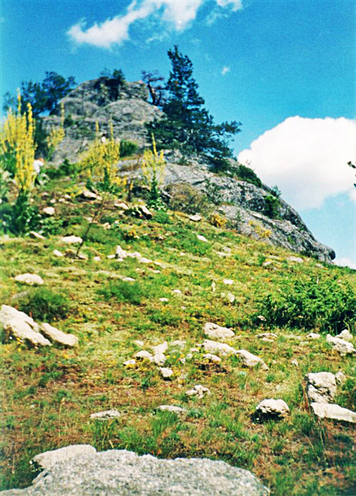 Kara Kaya sanctuar West Rodophes BUlgaria